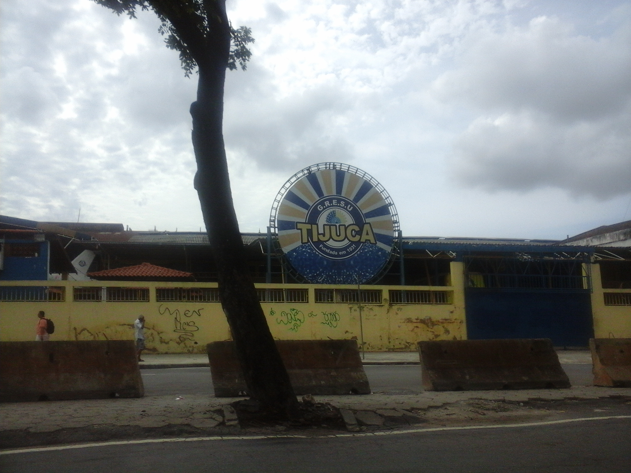 Quadra da Unidos da Tijuca